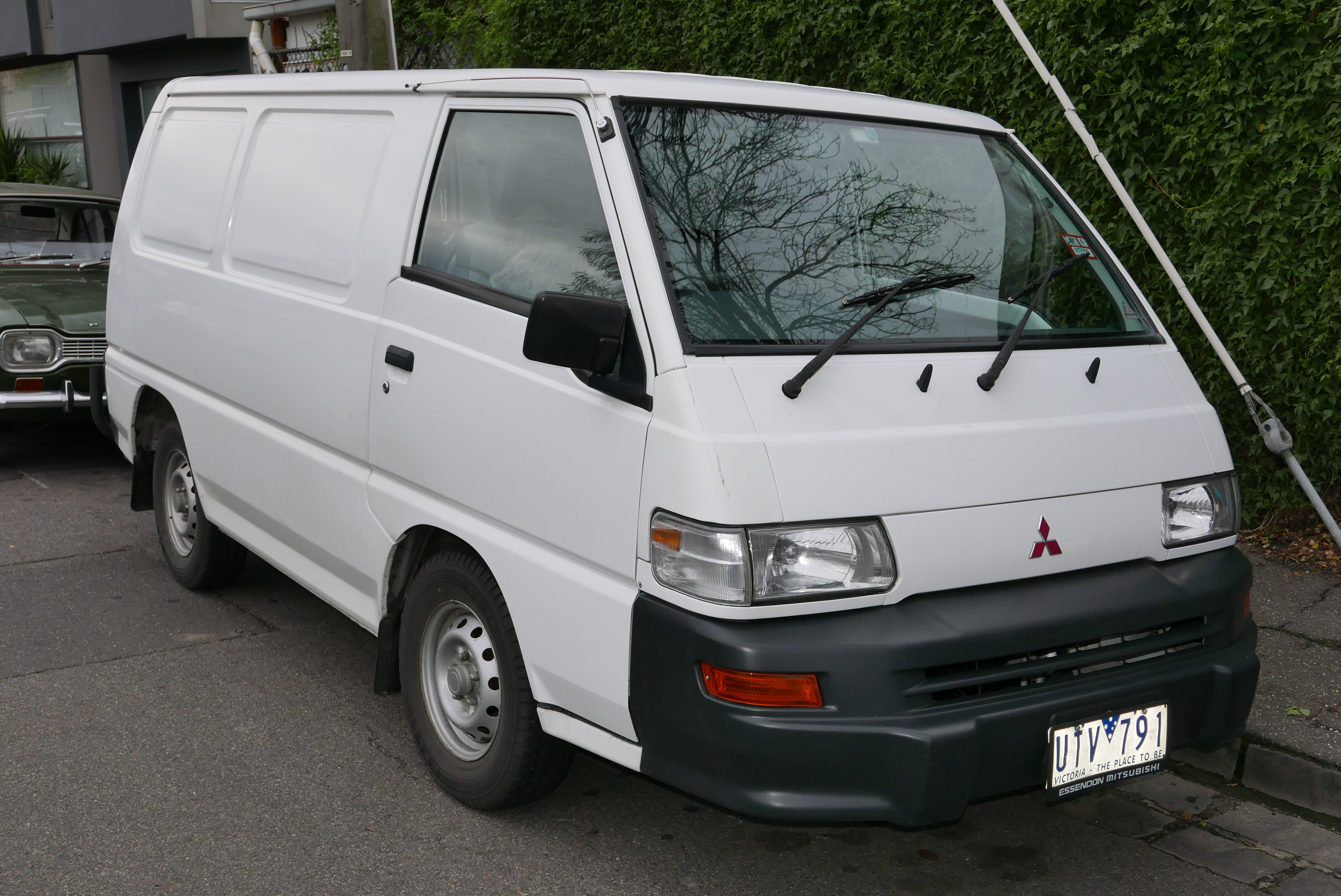 2007 Mitsubishi Express (SJ MY07) SWB van. Photographed in Fitzroy North, Victoria, Australia. Vehicle registration enquiry results Jurisdiction Victoria Registration UTV791 Chassis code JMFGNP04V7A002401 Engine code 4G64MY0504 Compliance date 2007-05 Year of manufacture 2007